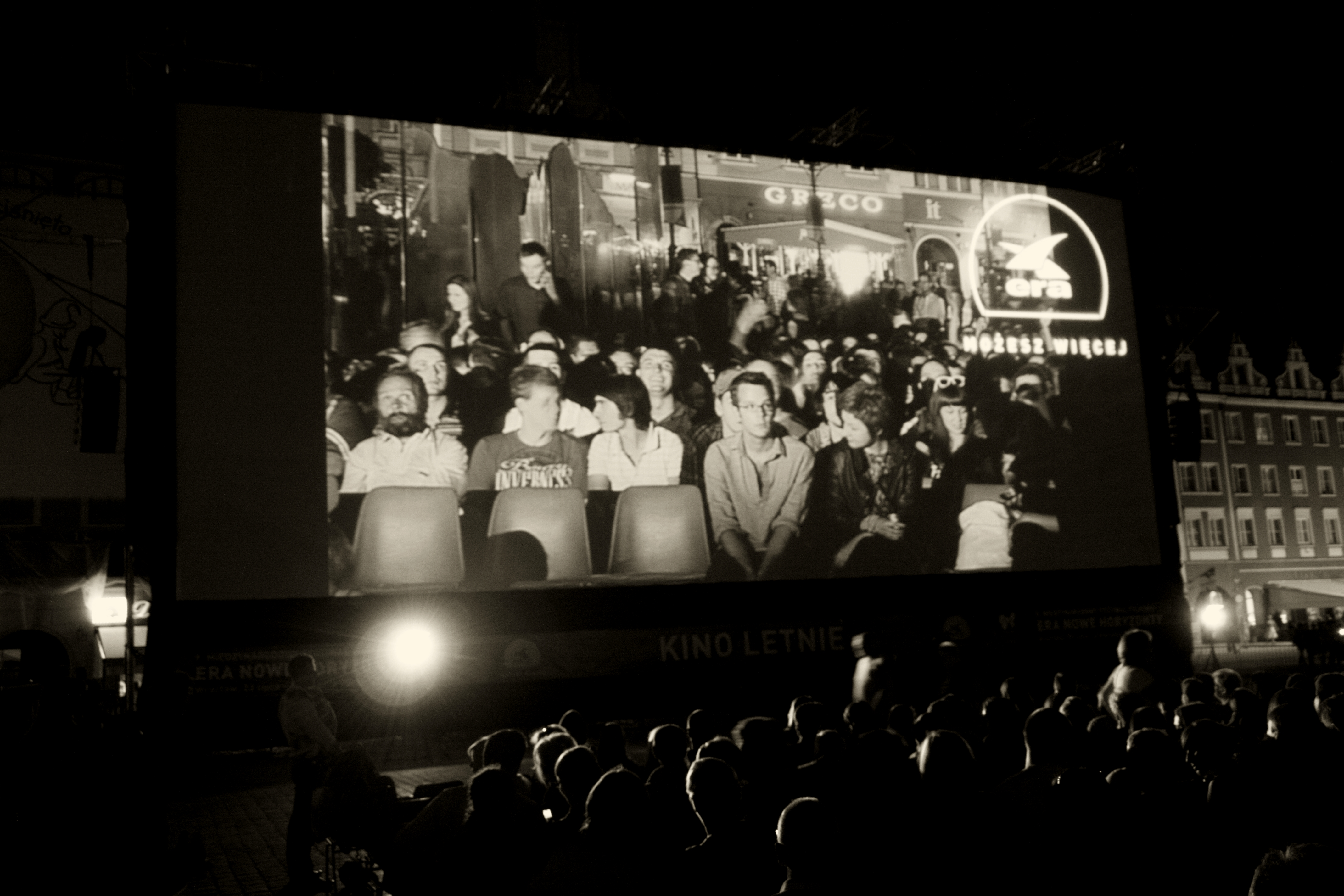 ERA New Horizons, International Film Festival, Wroclaw, 2009 ERA New Horizons